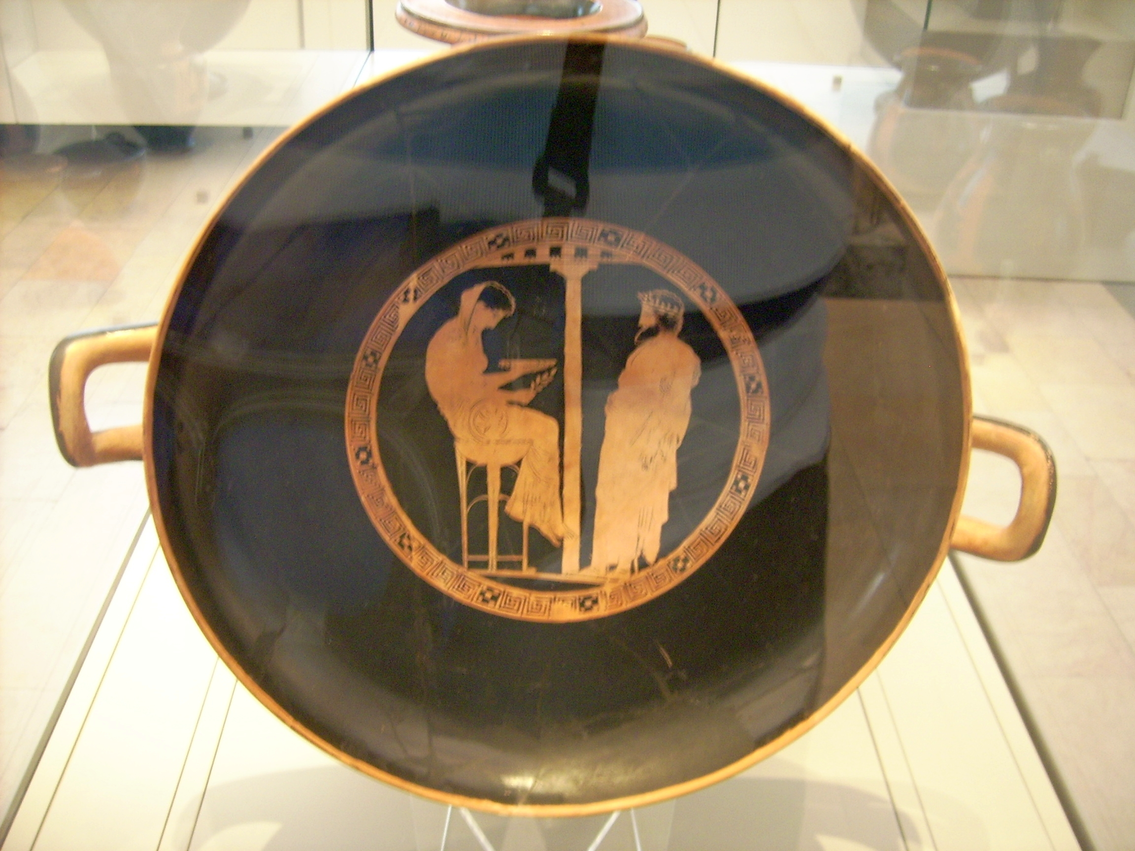 Aegeus consults the Pythia, who sits on a tripod. Tondo from an Attic red-figured kylix by the Kodros painter, ca. 440-430 BCE. Antikensammlung Berlin, 2538.